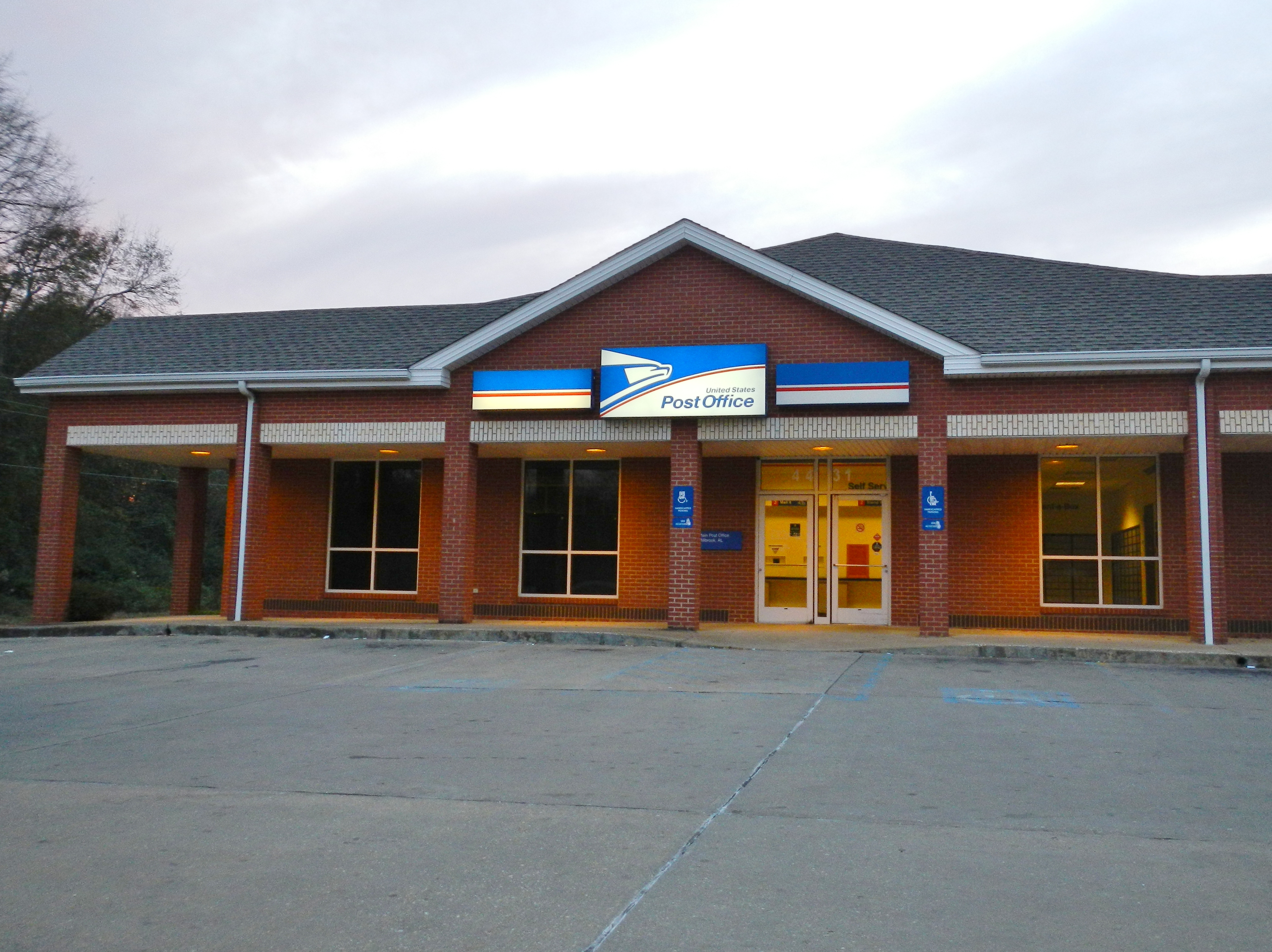 This is a photograph of the post office in Millbrook, Alabama.